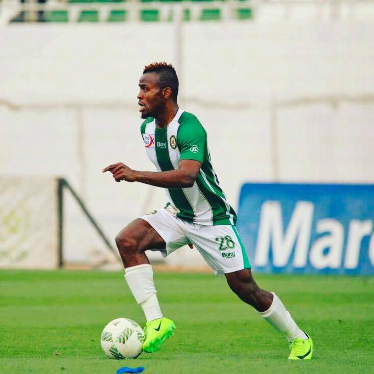 Ugonna Chuck